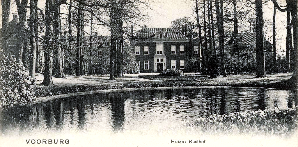 Princess Marianne of the Netherlands lived from 1845 until her death in 1883 in Rusthof House in the municipality of Voorburg, the Netherlands. In 1845 Marianne had left her husband and the city of Berlin to settle in Voorburg. Here she lived openly with her coachman, Johannes van Rossum. Shortly after her official separation from Prince Albert of Prussia, she bore Van Rossums son in 1849, and named him Johannes Willem van Reinhartshausen (1849-1861). Even at that time it was already widely known who the father was. In 1849 Prince Albert Jr. en the two other (surviving) children from her marriage to the Prince of Prussia joined her in Voorburg.